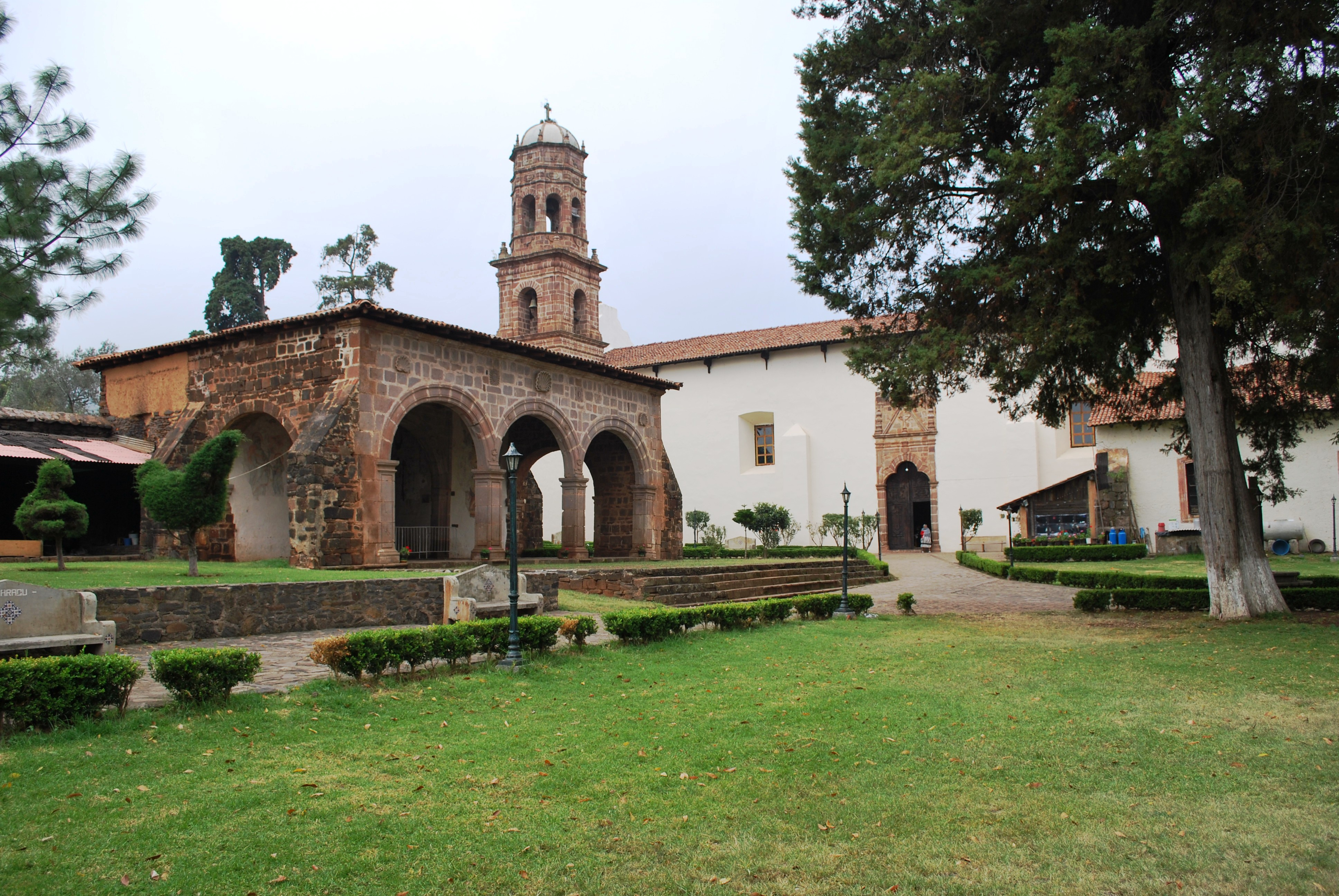 back atrium and open chapel of the church and monastery complex of San Francisco in Tzintzuntzan, Michoacan